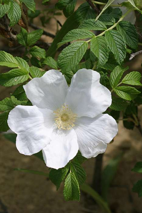 Rosa rugosa Photo taken by me. Henryhartley July 8, 2005 13:40 (UTC)